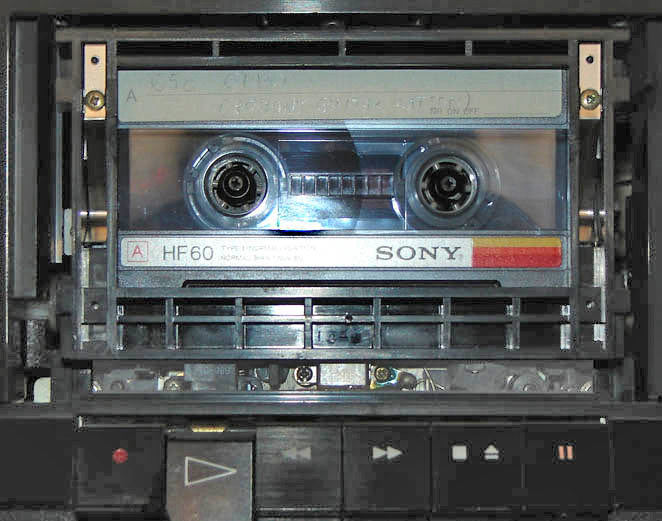 Close shot of a Hi-Fi audio cassette recorder device (Sony TC-FX150). The heads and the roller are in inserted position, just playing the record on tape.